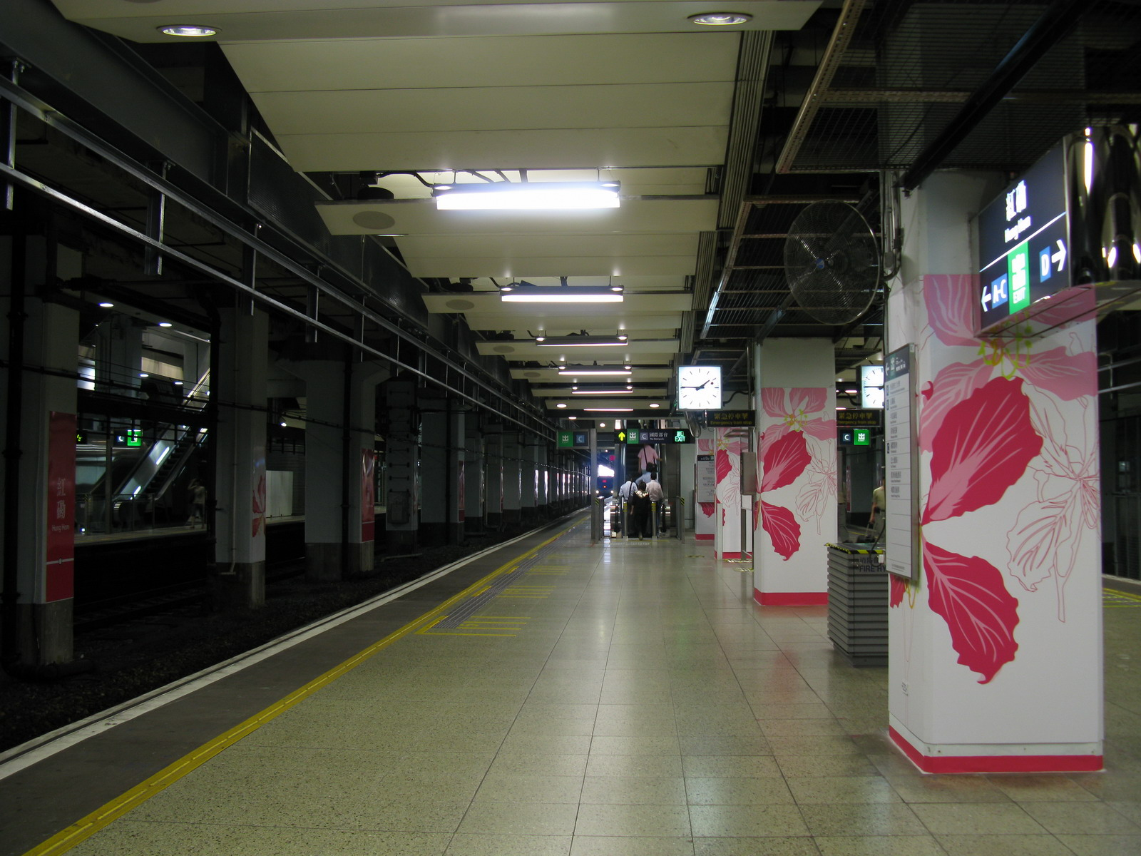 East Rail Line Platform of Hung Hom Station